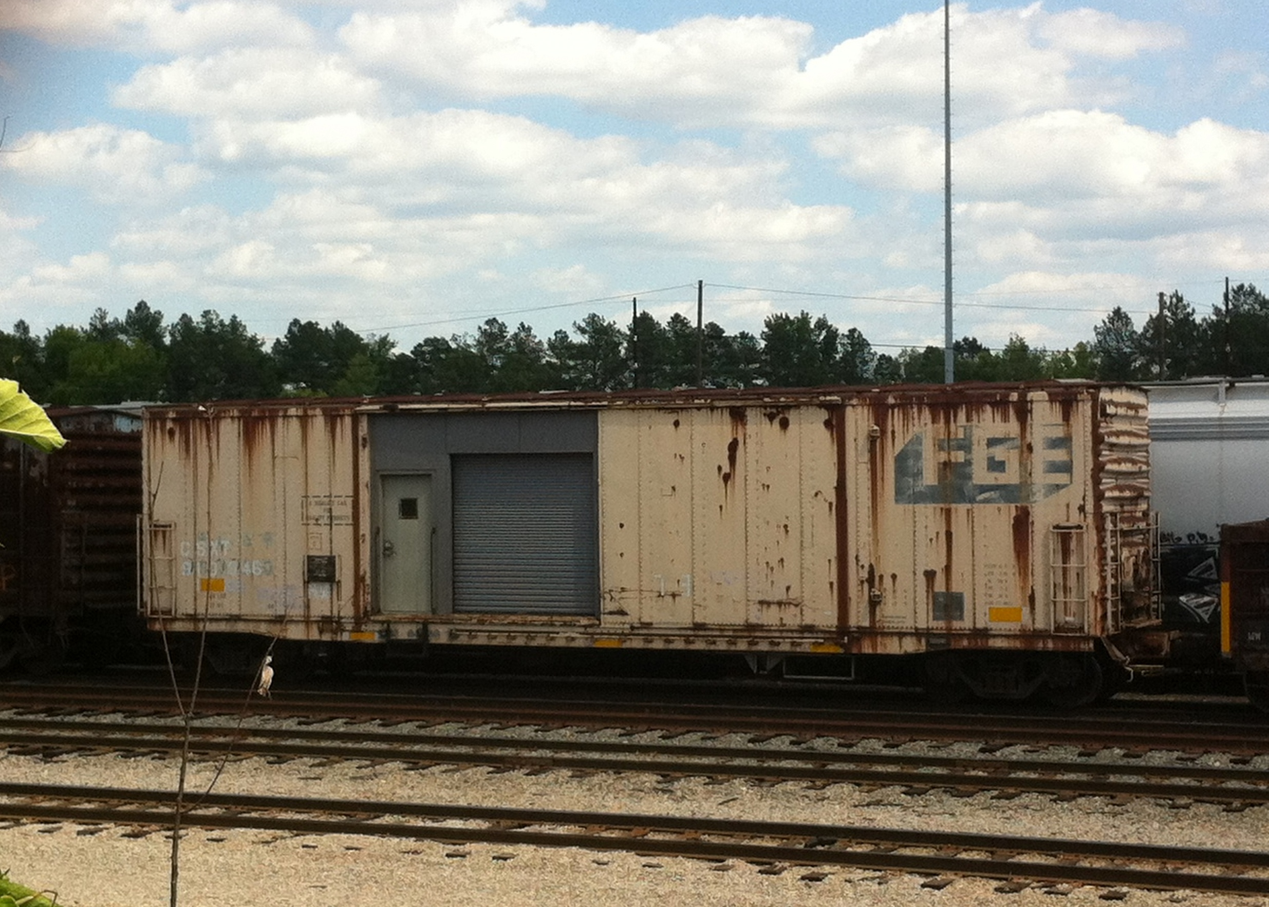 Never thought id see one in person...